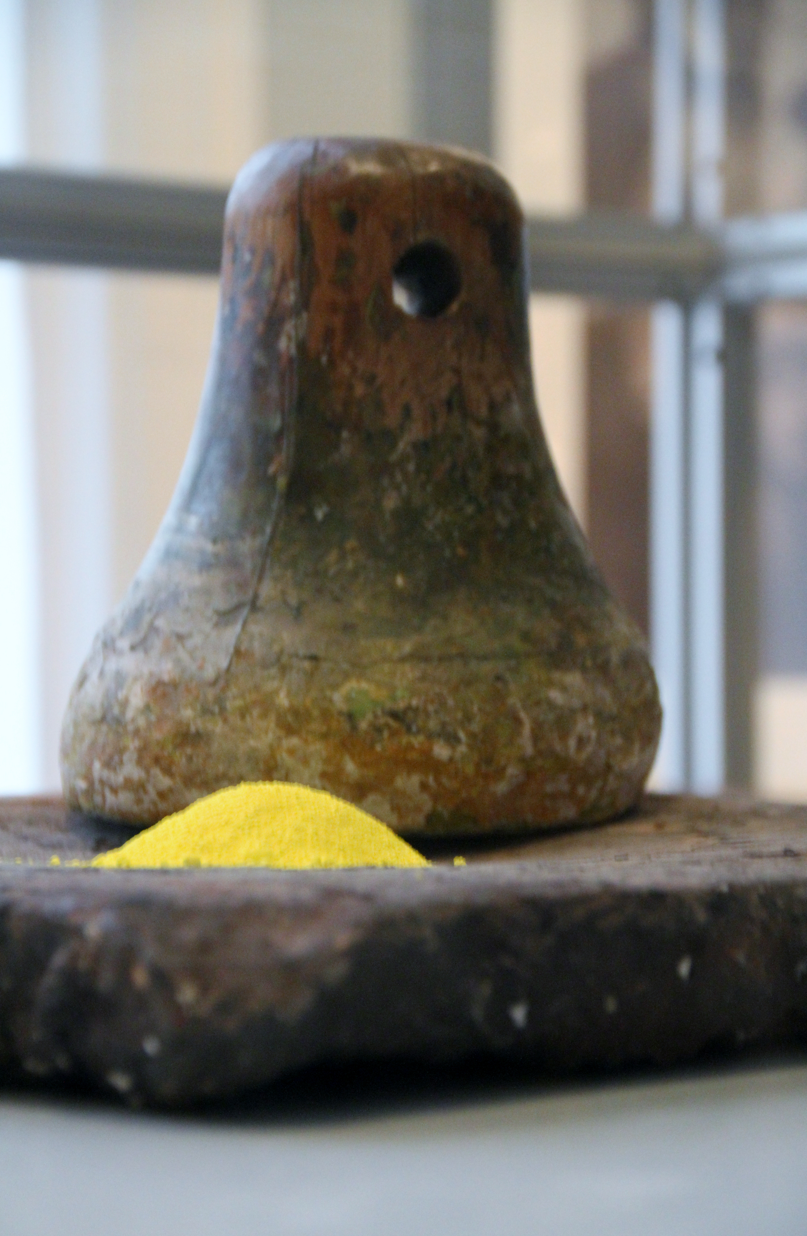 Paint powder mortar, Norway, at Folkemuseet.